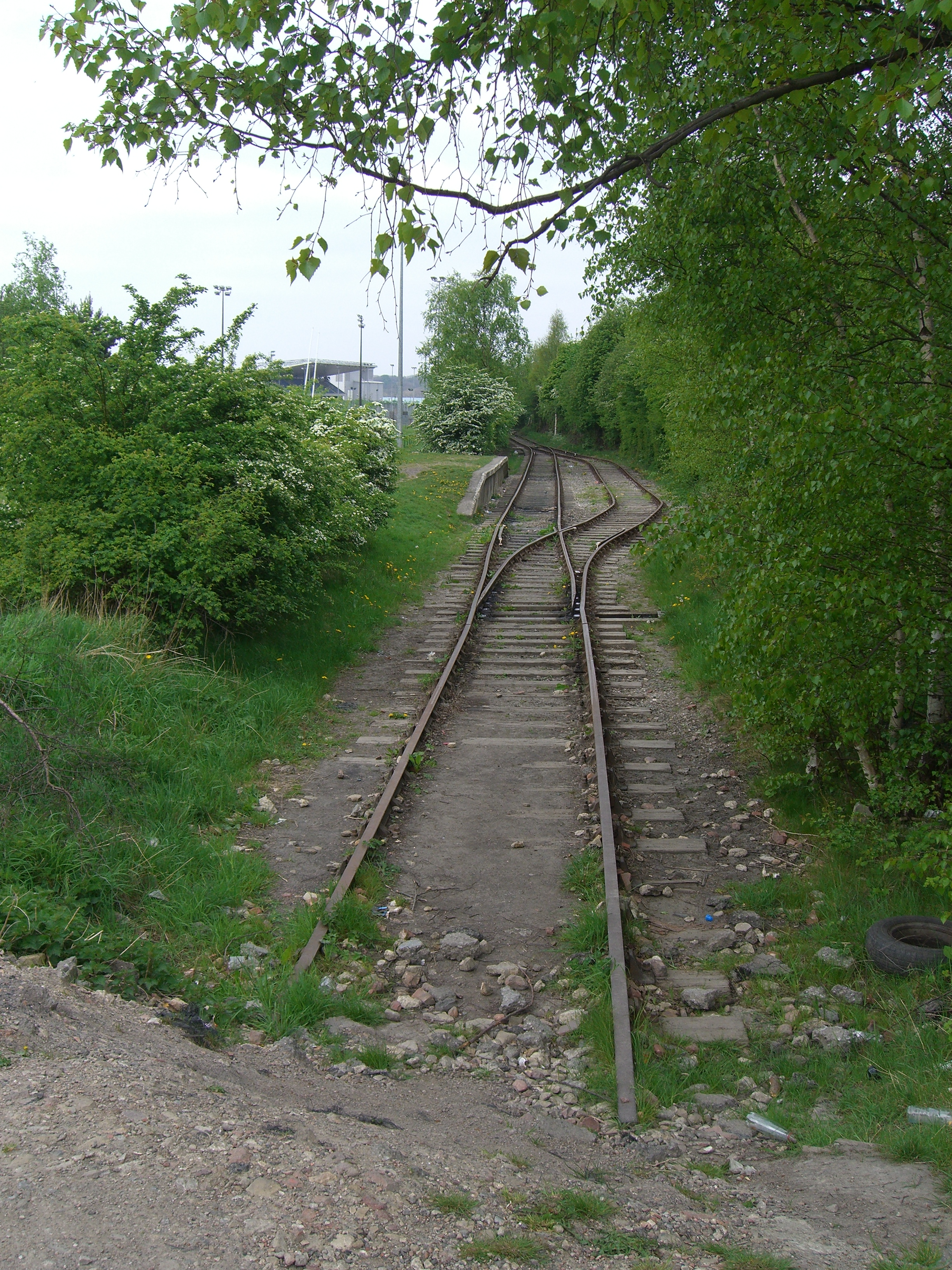 The Middleton railway with the John Charles Centre for Sport in the background. Taken on the 29th of April 2007.